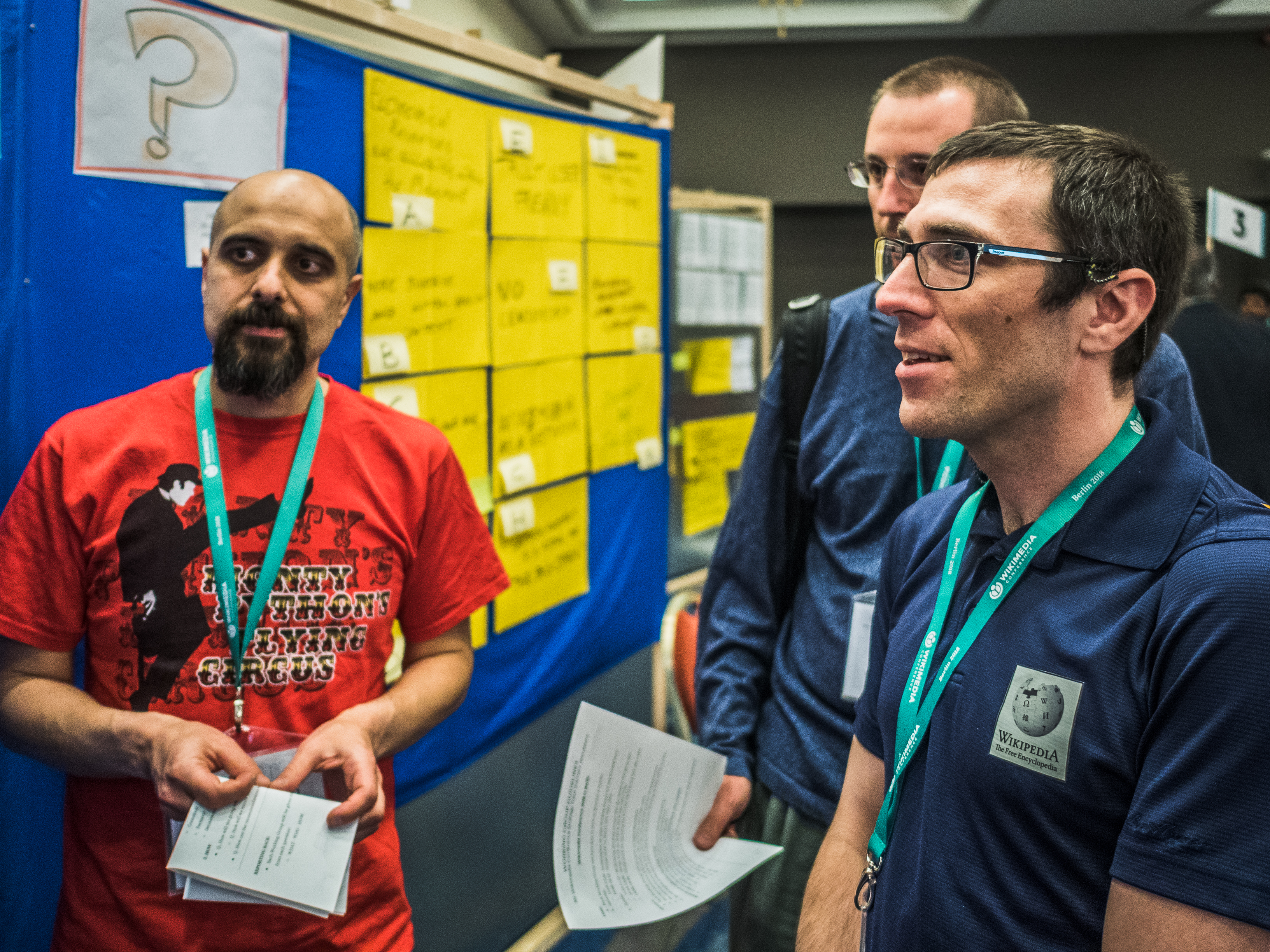 Wikimedia Conference 2018